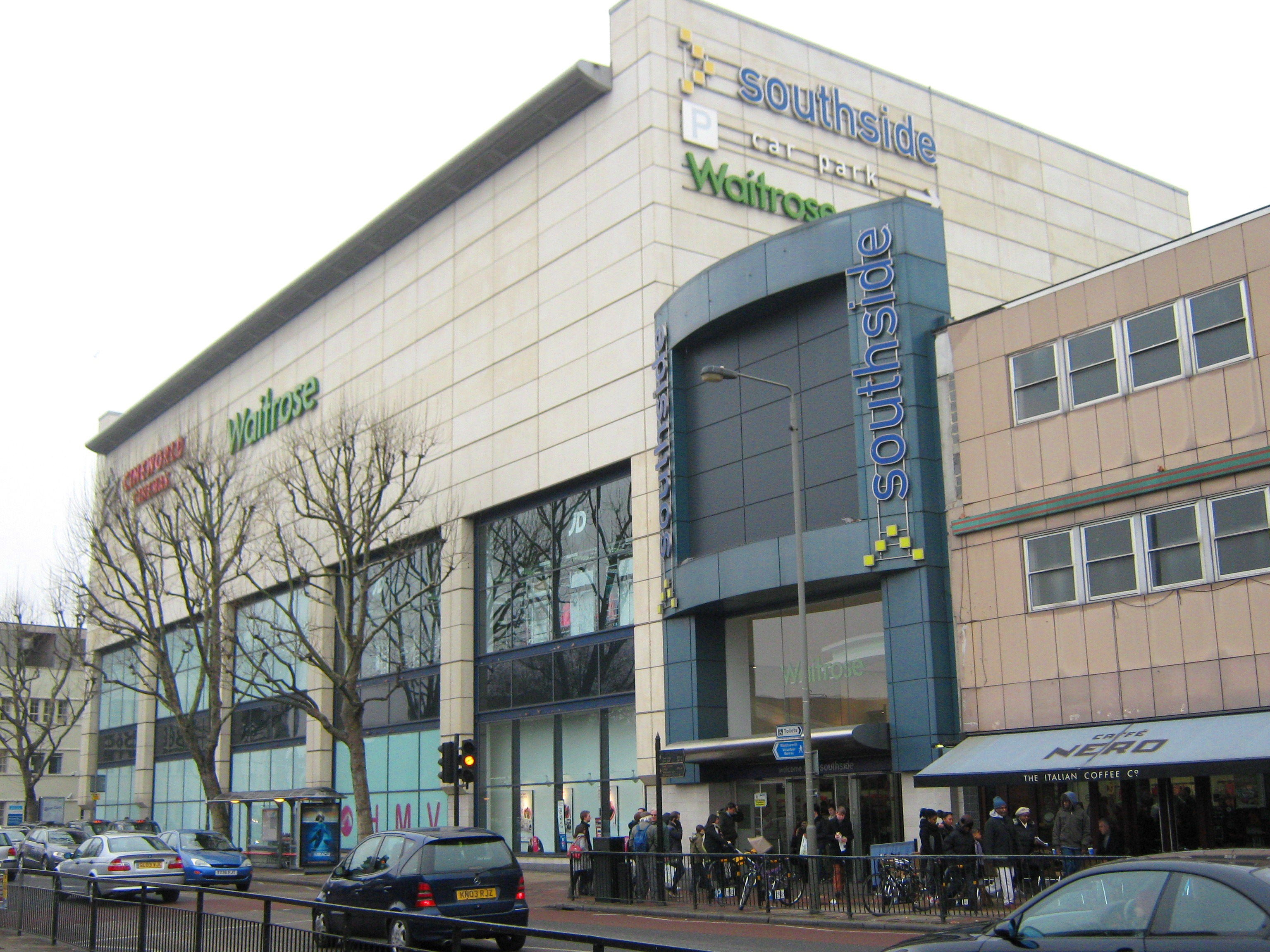 Exterior view showing the a section of the building extended in the 2000s (to the left of the entrance) and a remainder of the 1970s structure (to the right of the entrance)